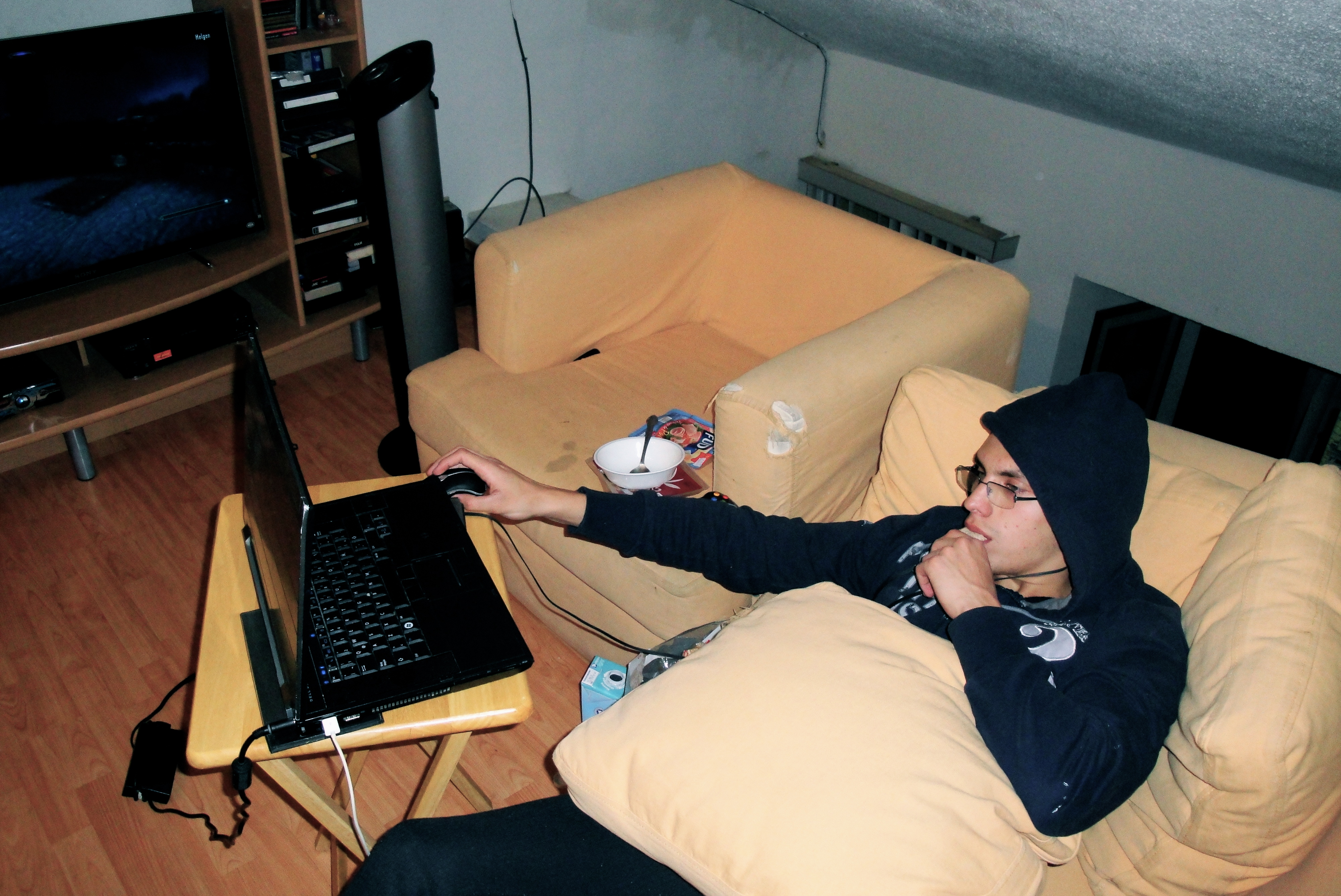 Depression produces significant levels of disability affecting physical, mental and social functions. These levels of disability are associated with increased risk of premature death. Also, they can hinder a person’s ability to perform daily activities, causing a significant deterioration in quality of life.